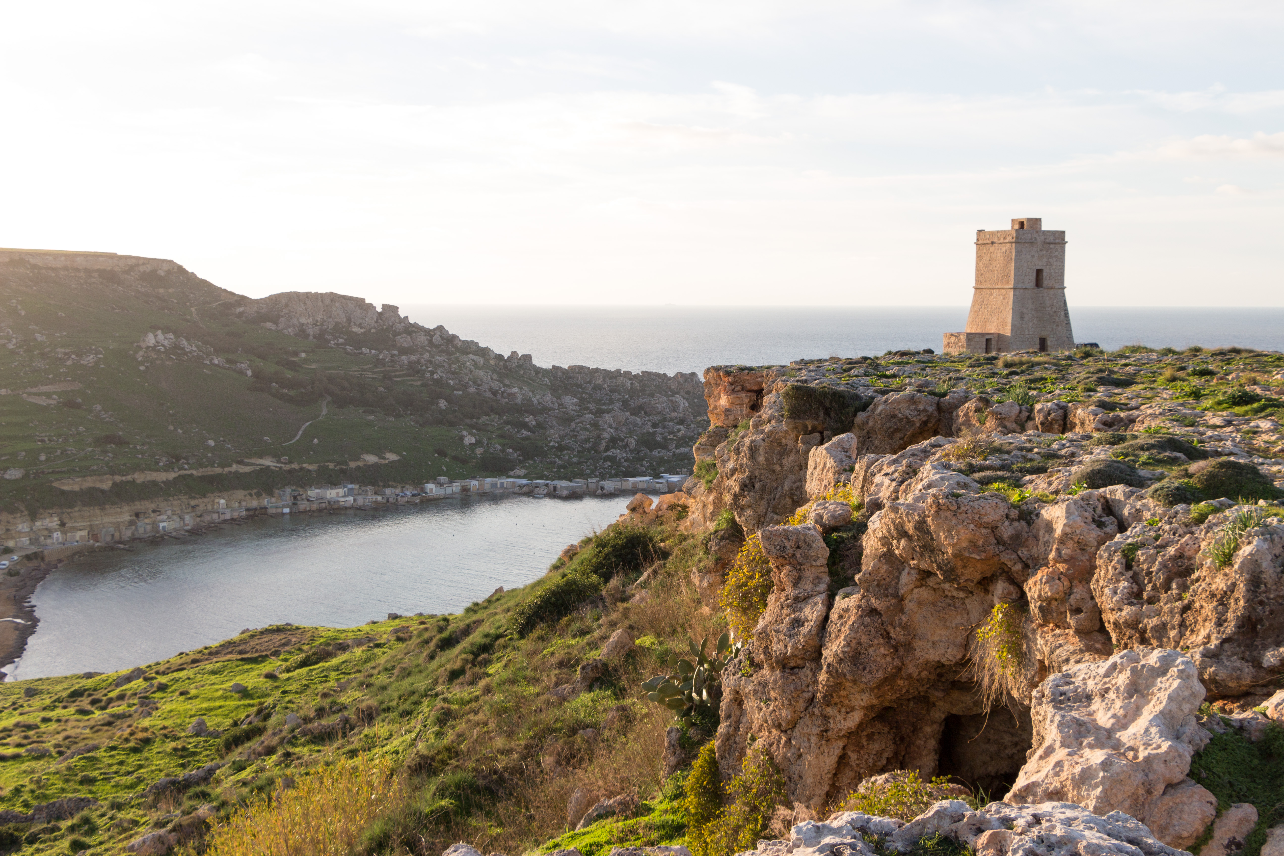 Lippija Tower This media is about Maltese cultural property with inventory number 00058.